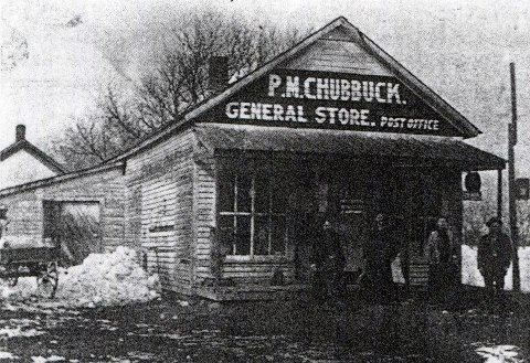 P. M. Chubbuck General Store and Post Office, Rice, Kansas